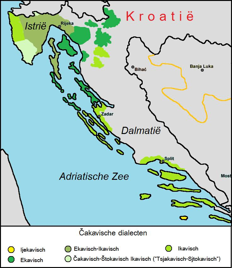 Cakavian dialects Croatia